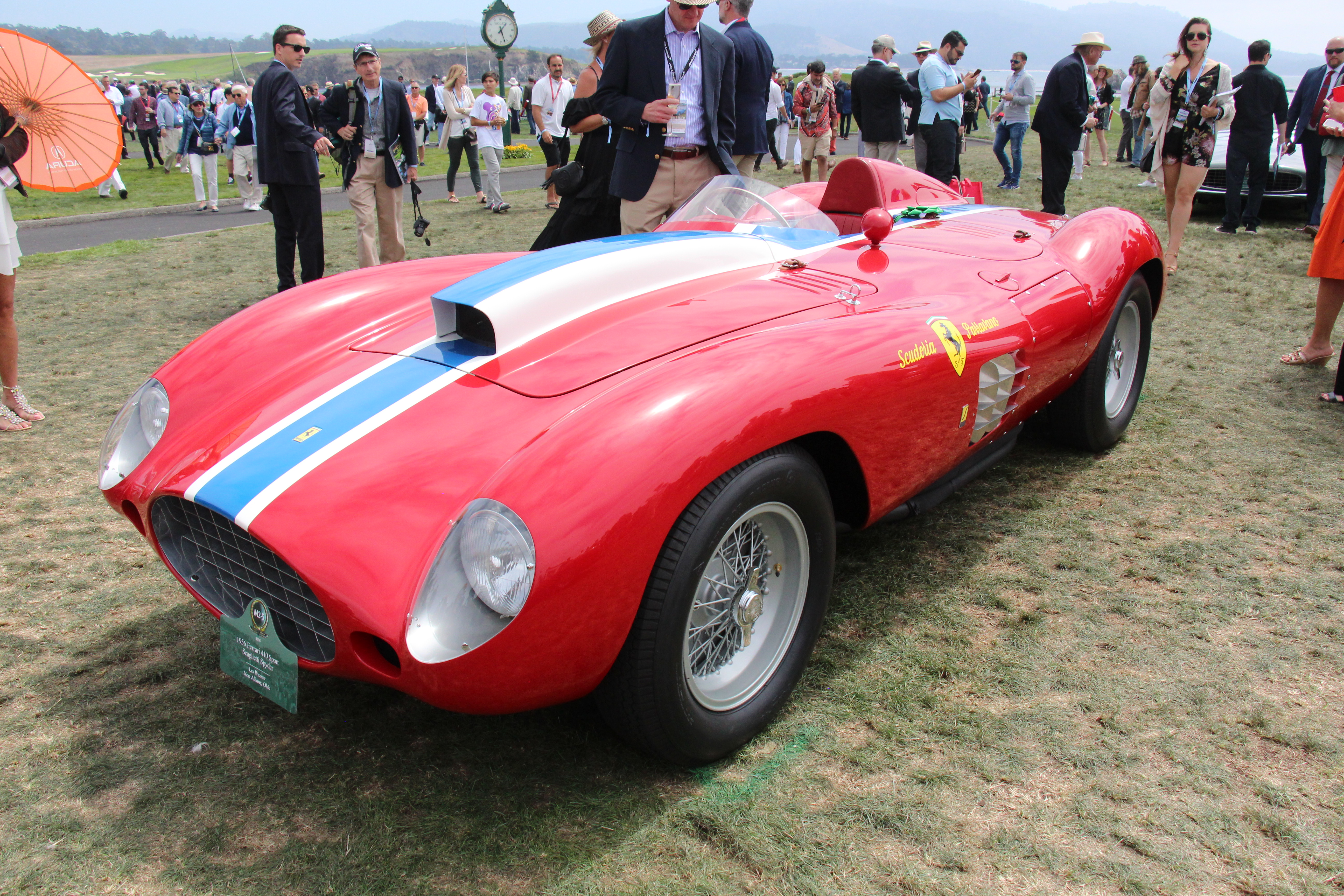 Designed specifically for the great Carrera PanAmericana road race, the 410 S featured the largest Ferrari engine yet; 4962cc V12. It was a newly designed unit developed for the 410 SuperAmerica road cars. There were two versions of the engine available; a single plug 340 bhp engine fitted in the first two cars and a twin plug 380 bhp unit fitted in the two works cars. Scaglietti was responsible for the lightweight body for the works racers. The first of the customer cars was custom bodied by Scaglietti as a road racer, complete with the potato chipper side fender grilles that were typical for his cars. The fourth car was also custom bodied by Scaglietti, but as a coupe. For the works cars the 'S' in the type indication is believed to be short for 'Sport' and 'Speciale' for the other two. Ferrari campaigned the works racers just once, in the 1956 Buenos Aires Grand Prix where both cars failed to finish. One was sold to a Swedish privateer who had little luck with his 410 S. The second racer was purchased by American John Edgar whose drivers, Carroll Shelby in particular, recorded many victories in North American events. Photographed at the 2018 Pebble Beach Concours d'Elegance